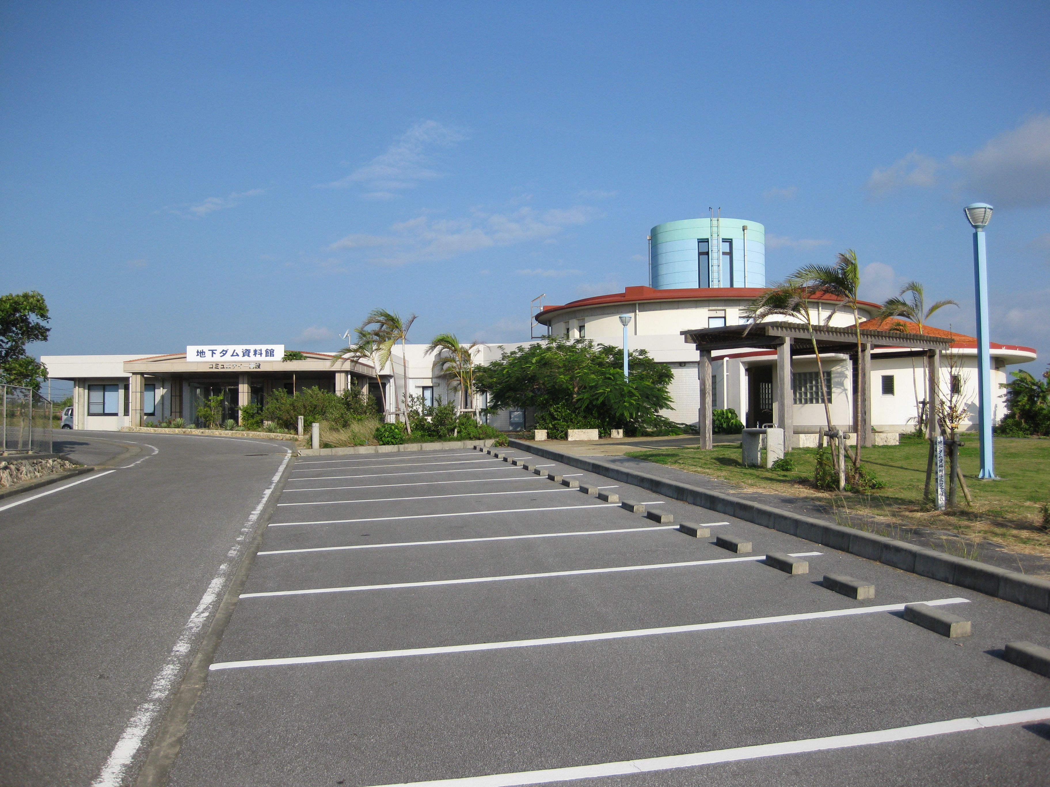 Underground Dam Museum near Fukuzato Dam in Okinawa, Japan